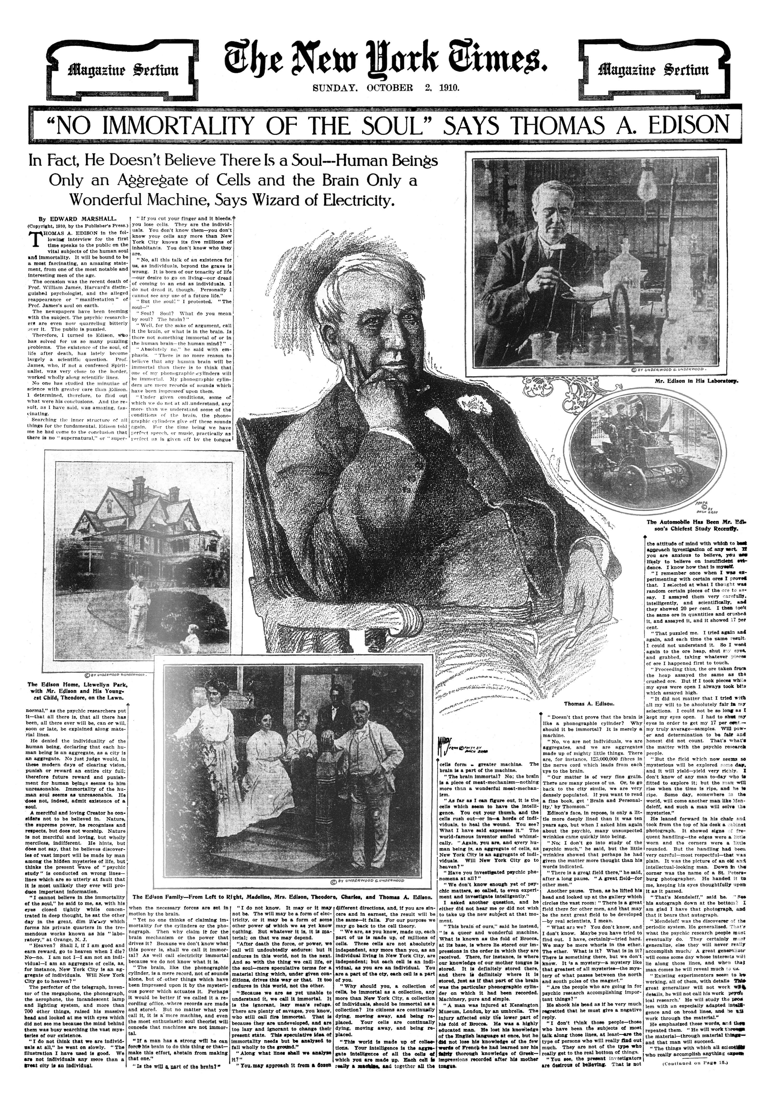 Full-page feature in The New York Times Magazine Section of October 2, 1910, "'No Immortality of the Soul' Says Thomas A. Edison" Note that Version 2 is a larger image for high resolution downloads (not needed for online uses).